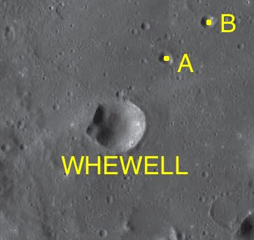 Part of the chart LAC-60 used for the presentation